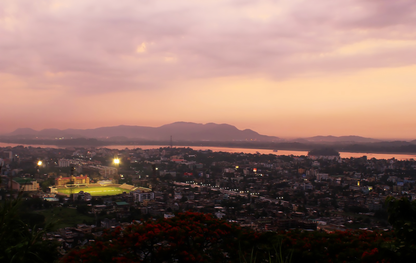 Guwahati (Assamese: গুৱাহাটী, spelled as Guwāhāti - with diacritics) formerly known as Gauhati is a metropolis and is the largest city of Assam in India, with a population of 818,809 (2001 census). It is also the largest metropolis in the north-east region of India and the second largest capital city in Eastern India after Kolkata. It is said to be the "Gateway" of the North East Region. Dispur, the capital of the Indian state of Assam, is located within the city is the seat of Government of Assam.